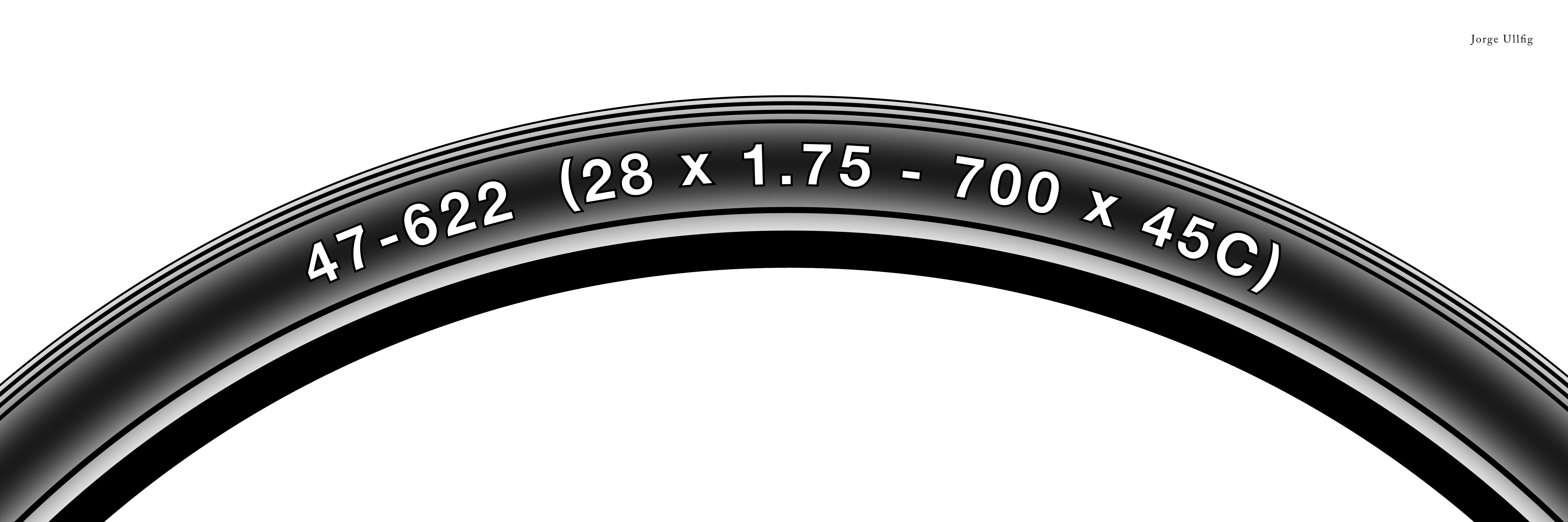 Bicycle tire markings. 47-622 (28 x 1¾ - 700 x 45C)